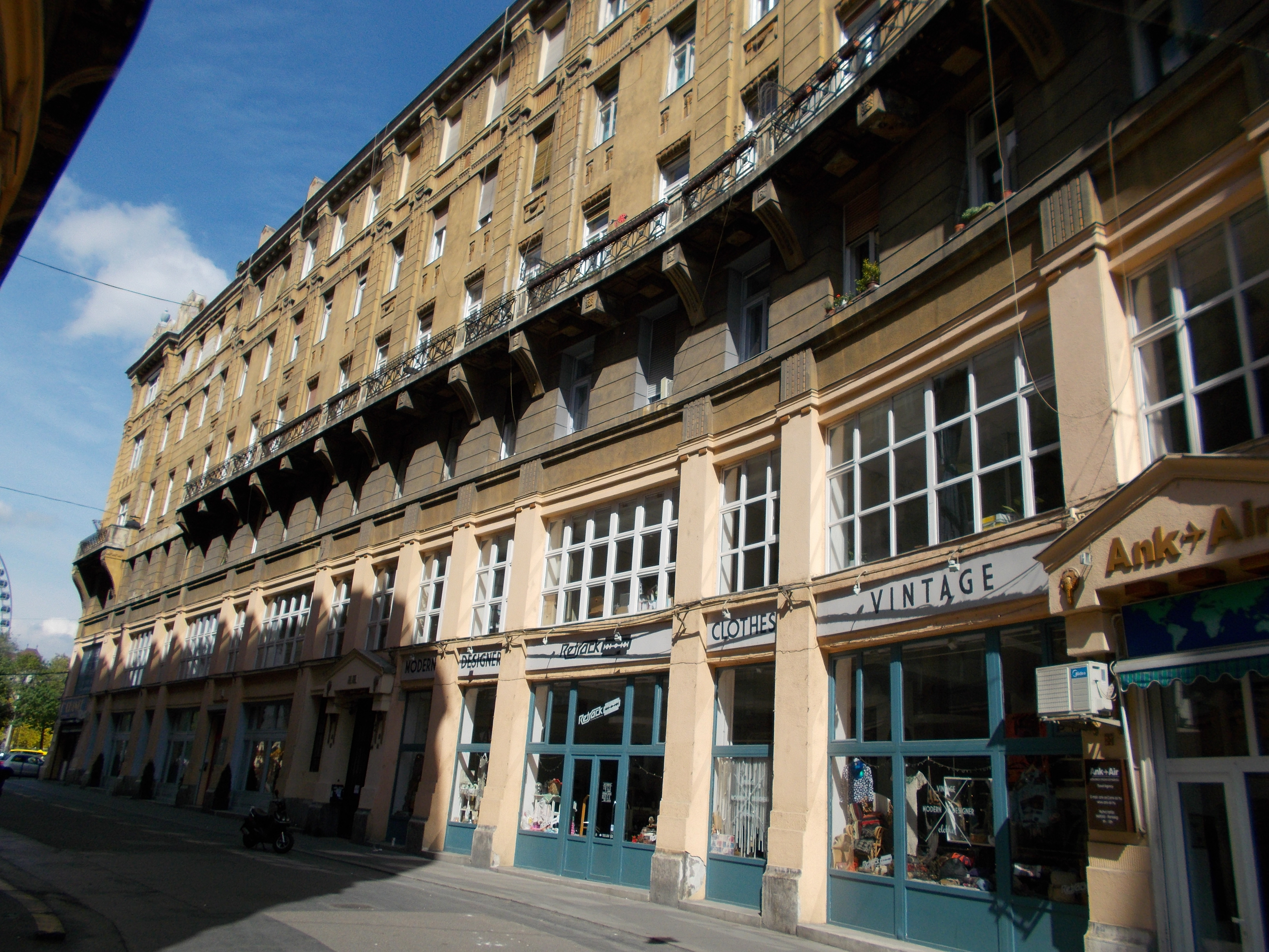 Anker-ház. Alpári Ignác. 1908. Műemlék ID 12151 - Budapest 6. kerület. Anker köz 2-4